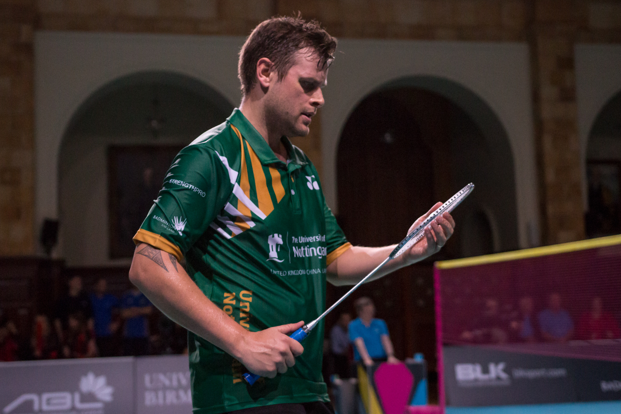 NBL Badminton player Matthew Hughes during a match in the Great Hall, University of Birmingham